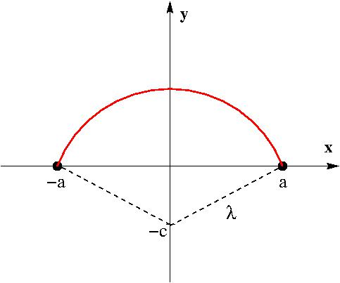 Illustration of solution to variational problem